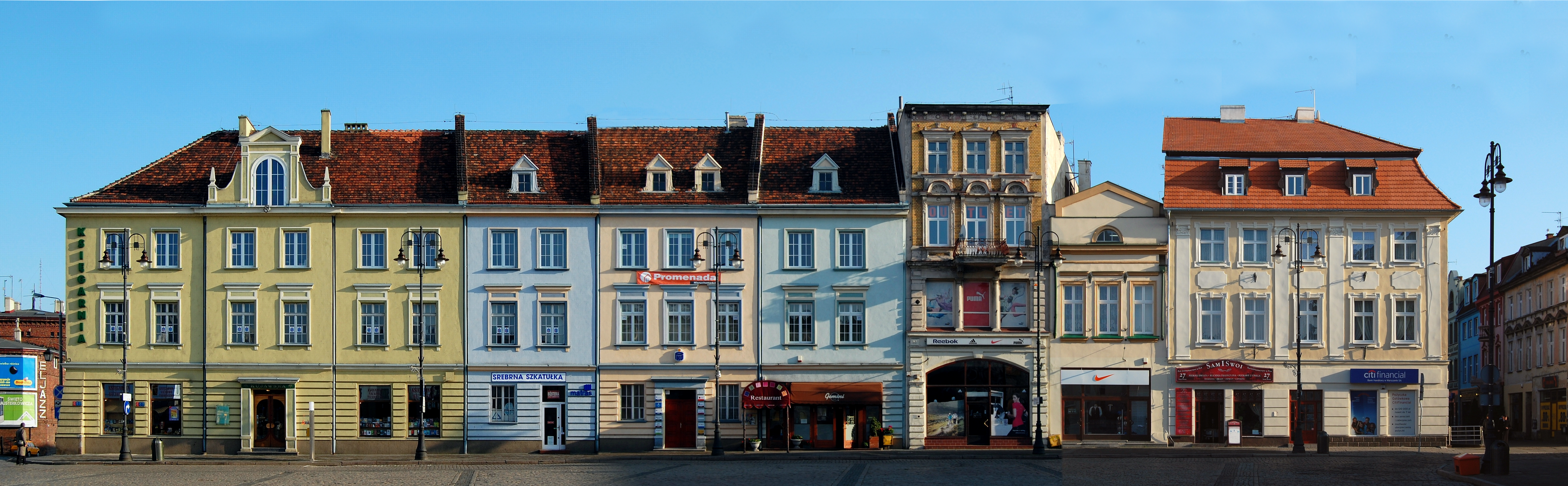 Houses at the Market Square in Bydgoszcz, Poland.